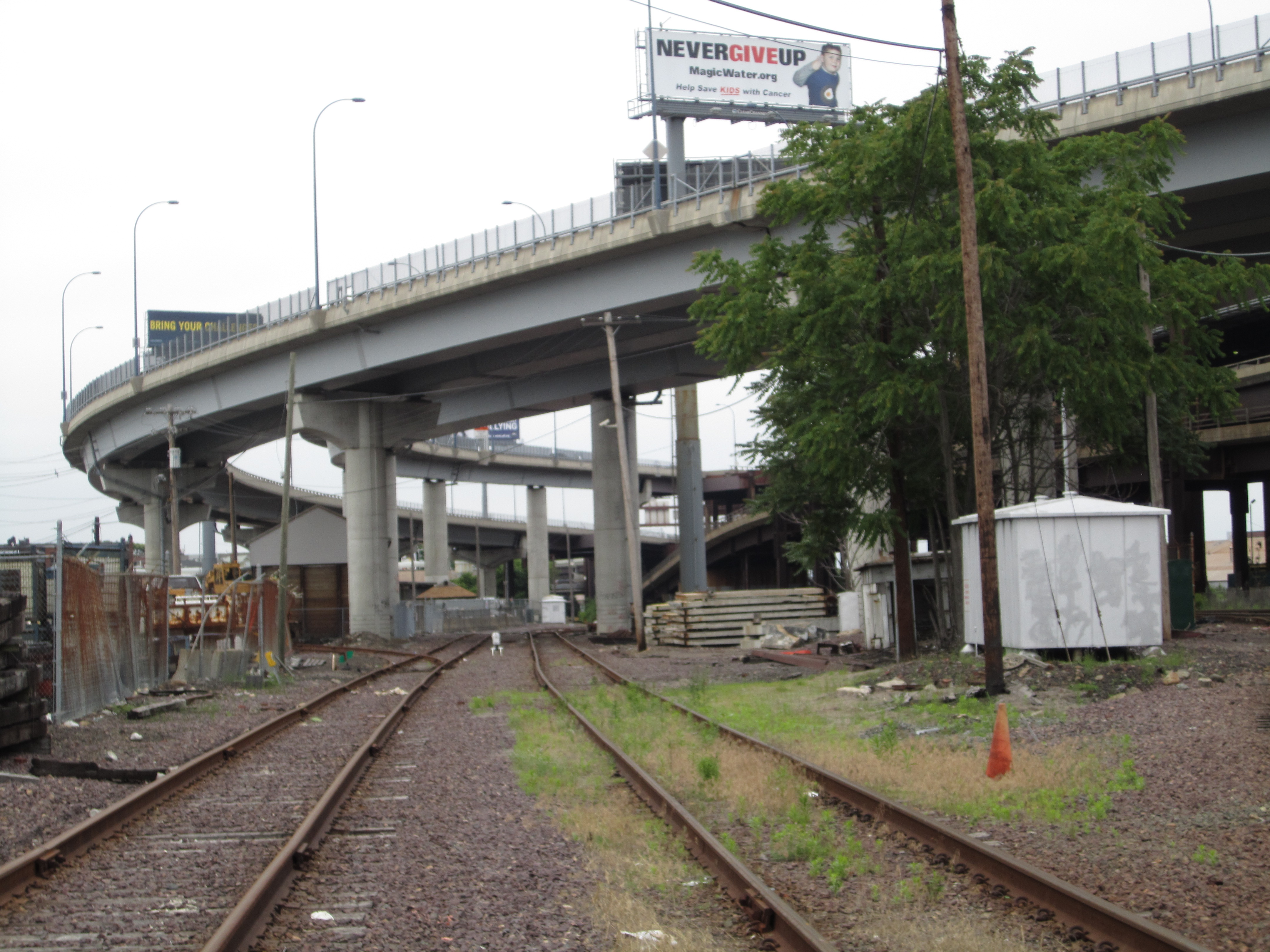 Railroad tracks at the far east boundary of the Inner Belt area, next to the MBTA Commuter Rail Maintenance Facility